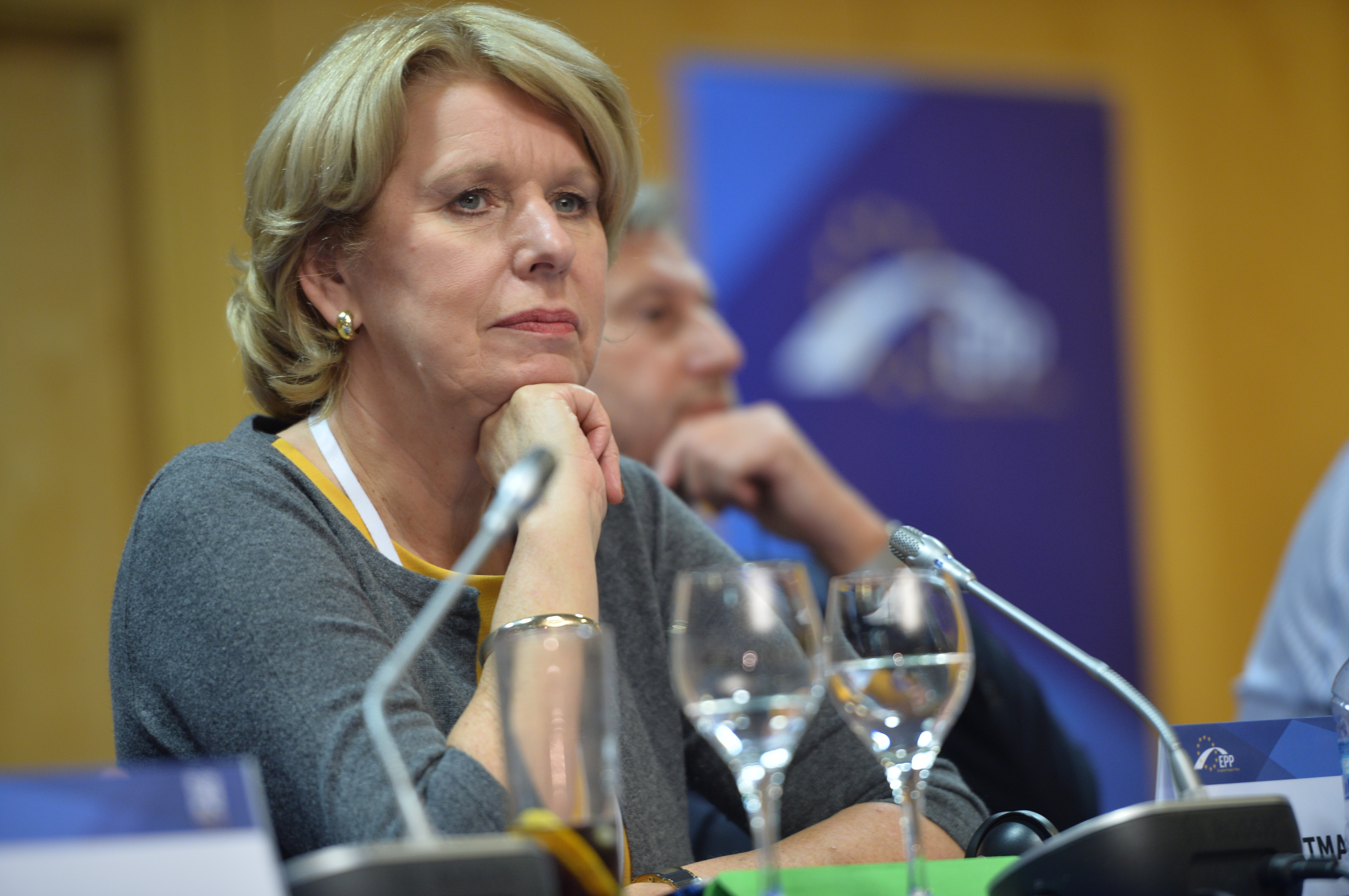 EPP Congress Madrid - 21 October